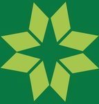 Logo-verdes